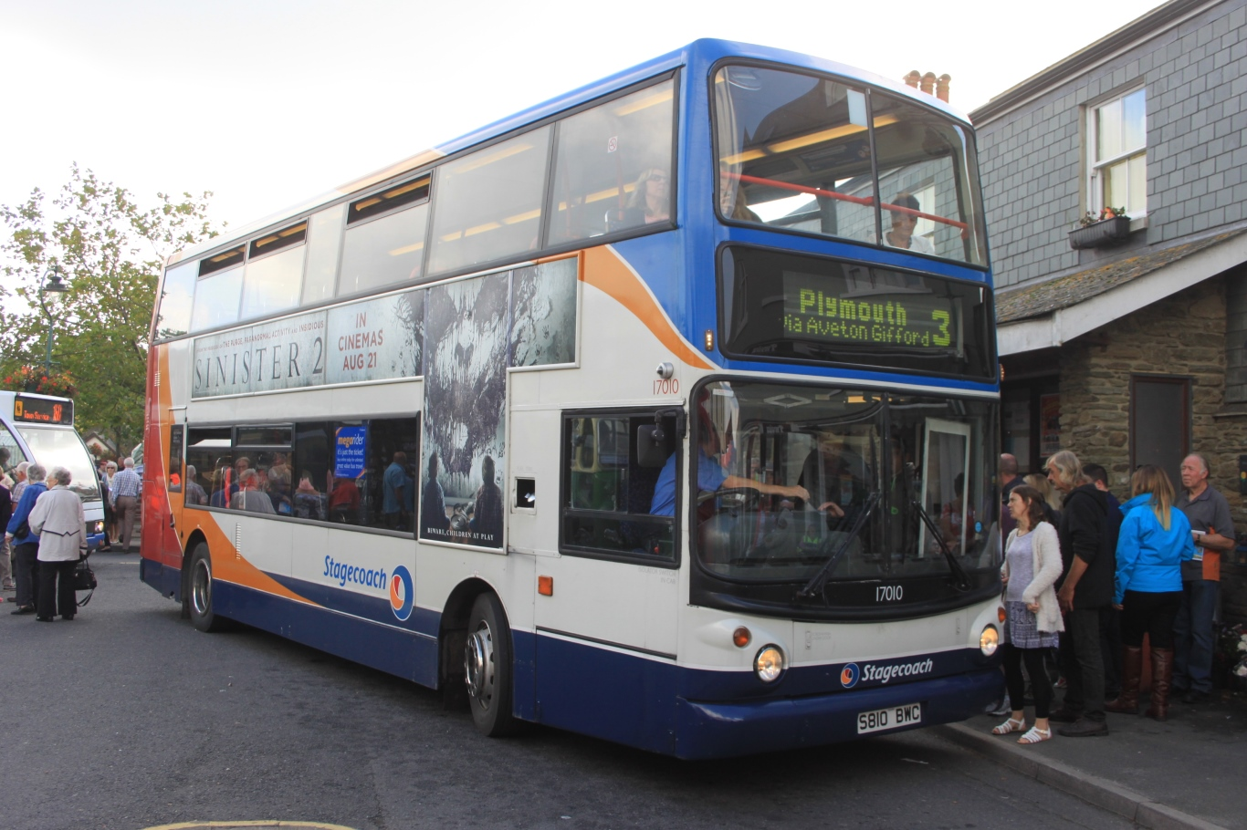 Passengers board Stagecoach service 3 to Plymouth at Kingsbridge in September 2015. Until the beginning of the month this had been First Devon & Cornwall's route 93 but all of their services in Devon have now been transferred to Stagecoach. The bus is a former London ALX400, fleet number 17000 (registration S810BWC).